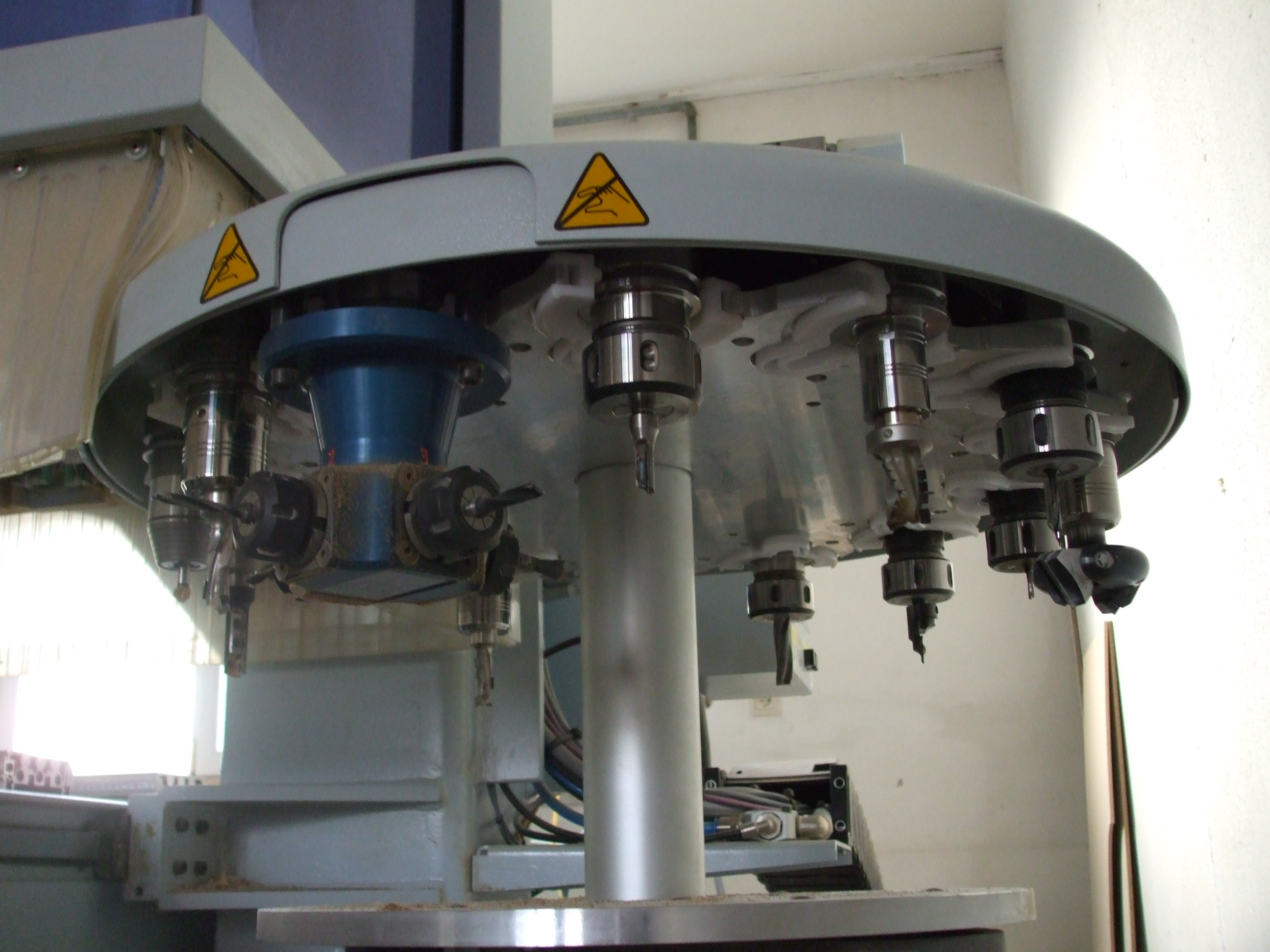 toolholder